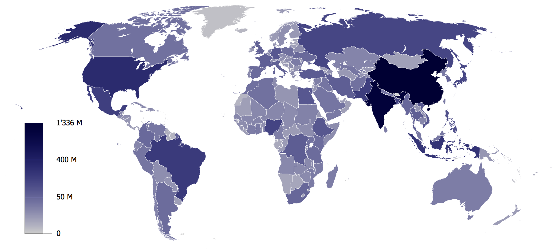 World population by country in millions.